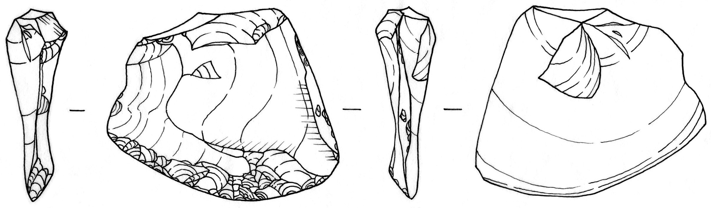 This is one kind of scrapers based on Bordes' typology